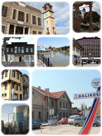 A Collage of the Balıkesir Province's Centre City, Balıkesir, Turkey. Top Left: Balıkesir Clock Tower and Old Ziraat Bankası (Ziraat Bank) Building, Ascription: Ollios Source Left Under Top Left: Kuvay-i Milliye Museum, Ascription: Ollios Source Right Under Top Left: Atatürk Parkı, Ascription: Ollios Source Top Right: View of the Balıkesir Clock Tower from a mosque's fountain, Ascription: Ollios Source Middle Right: Balıkesir City Centre - AHP Square, Ascription: Maderibeyza Source Bottom Right: Balıkesir Train Station, Public Domain from Çağlar Canbay Source Bottom Left: City Center - Özmerkez Office Building, Ascription: Godfried Warreyn Source Above Bottom Left: A Typical Ottoman Architectury House in the Streets of Balıkesir City Center, Ascription: Ollios Source Creation, Collection & Work